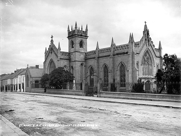 Photograph of the Roman Catholic Church of St. Mary in Buttevant, taken in the period 1880–1900 by Robert French, a photographer who worked for William Lawrence in Dublin